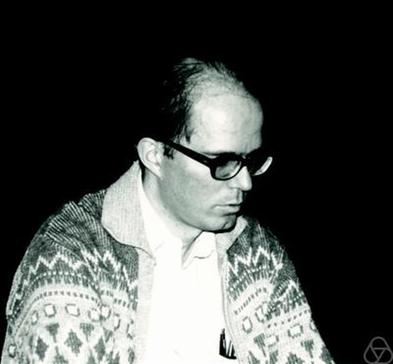 Andrew Odlyzko, Oberwolfach 1986